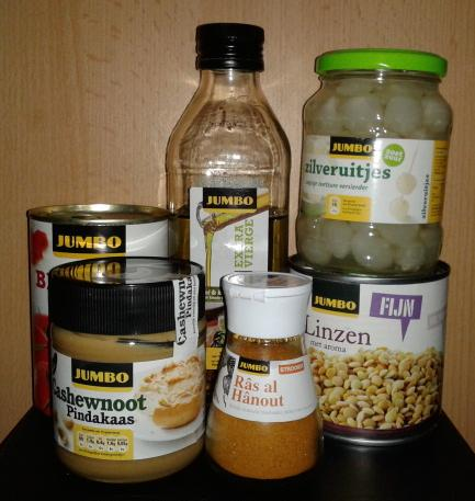 Selection of Jumbo Supermarkets store brand products: diced tomatoes, olive oil, pickled onions, ras el hanout, and cashew-peanut butter